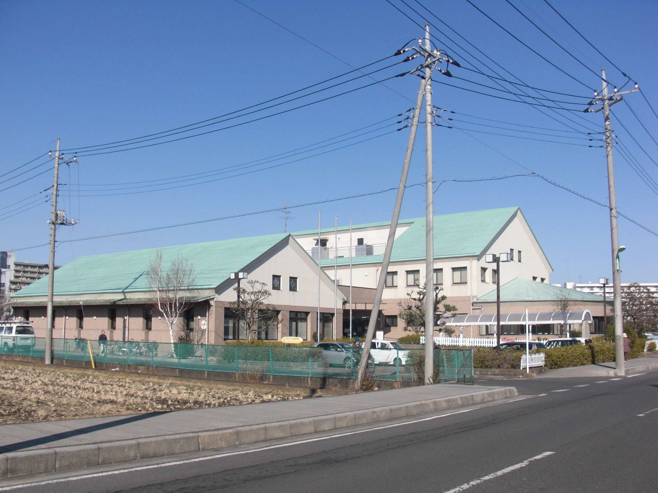 This is the Misato city Northern Library in Misato city, Saitama, Japan.